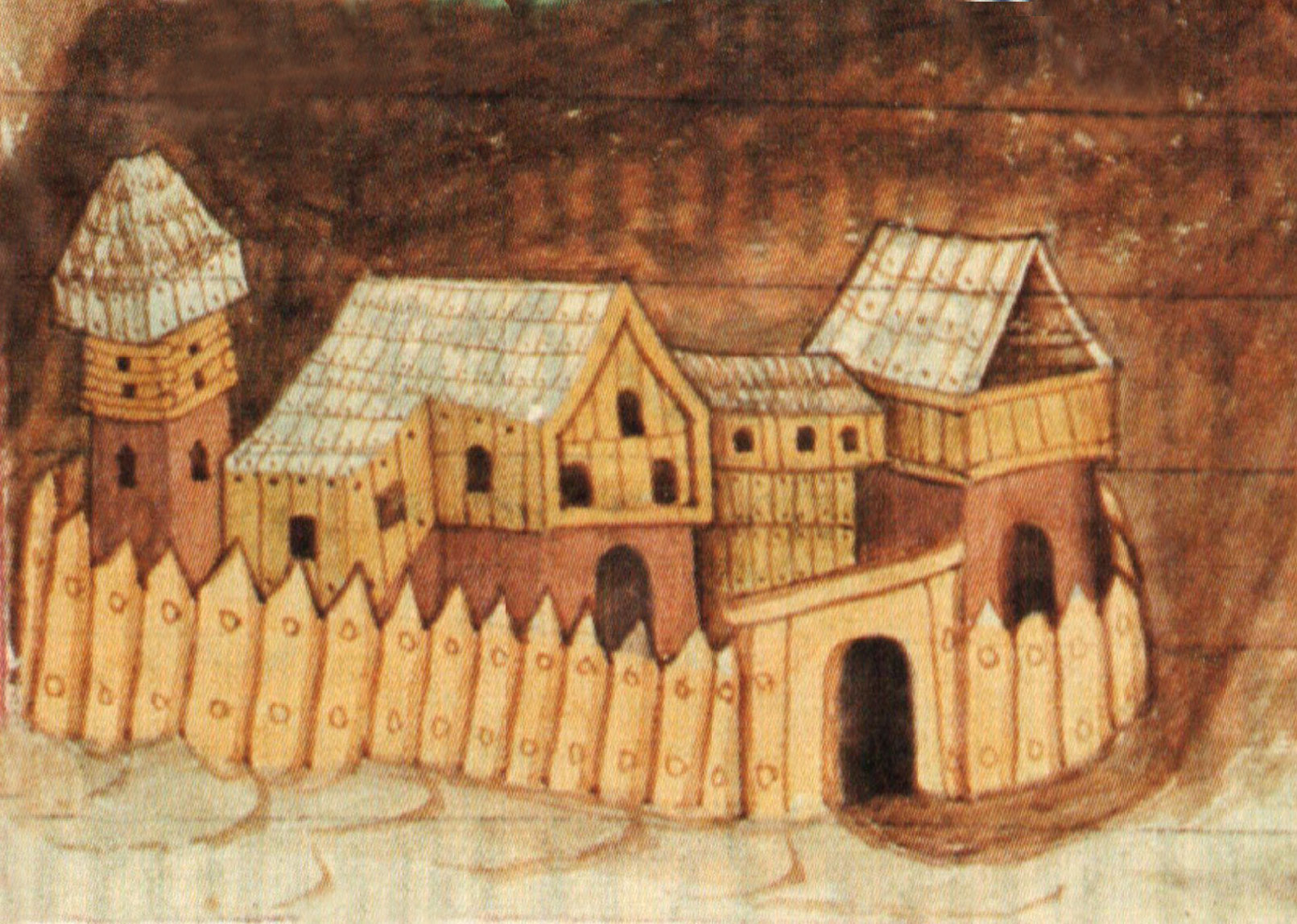 Stronghold on the illumination from the Bible of Wenceslas IV - detail